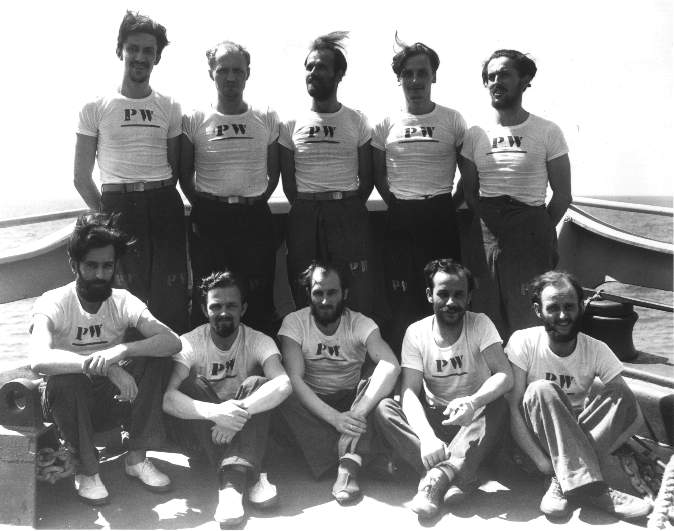 Warrant Officer, Chief and Senior Petty Officer POWs from U-66 aboard USS Block Island (CVE-21), (from left to right) (back row) Funkmaat Werner Pasedak, Obermaschinist-D Bernhard Terinde, Stabsobersteuermann Werner Fröhlich, Sanitatsmaat Wolff Loch, Obermaschinenmaat Hermann Hartman, (front row) Obersteuermann Richard Höhn, Oberfunkmaat Karl Degener-Böning, Maschinenmaat-E Franz Nirnberger, Obermaschinist-E Walter Landvoight, Maschinenmaat-E Georg Grölz